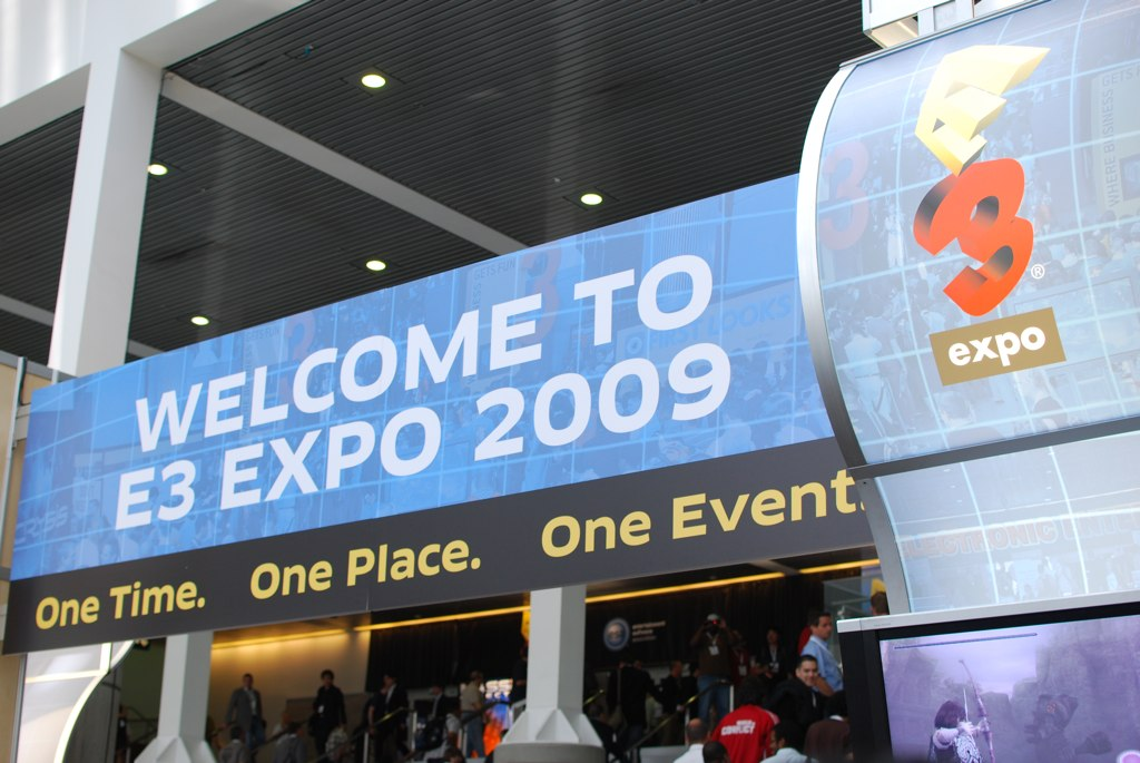 Welcome to Electronic Entertainment Expo 2009.